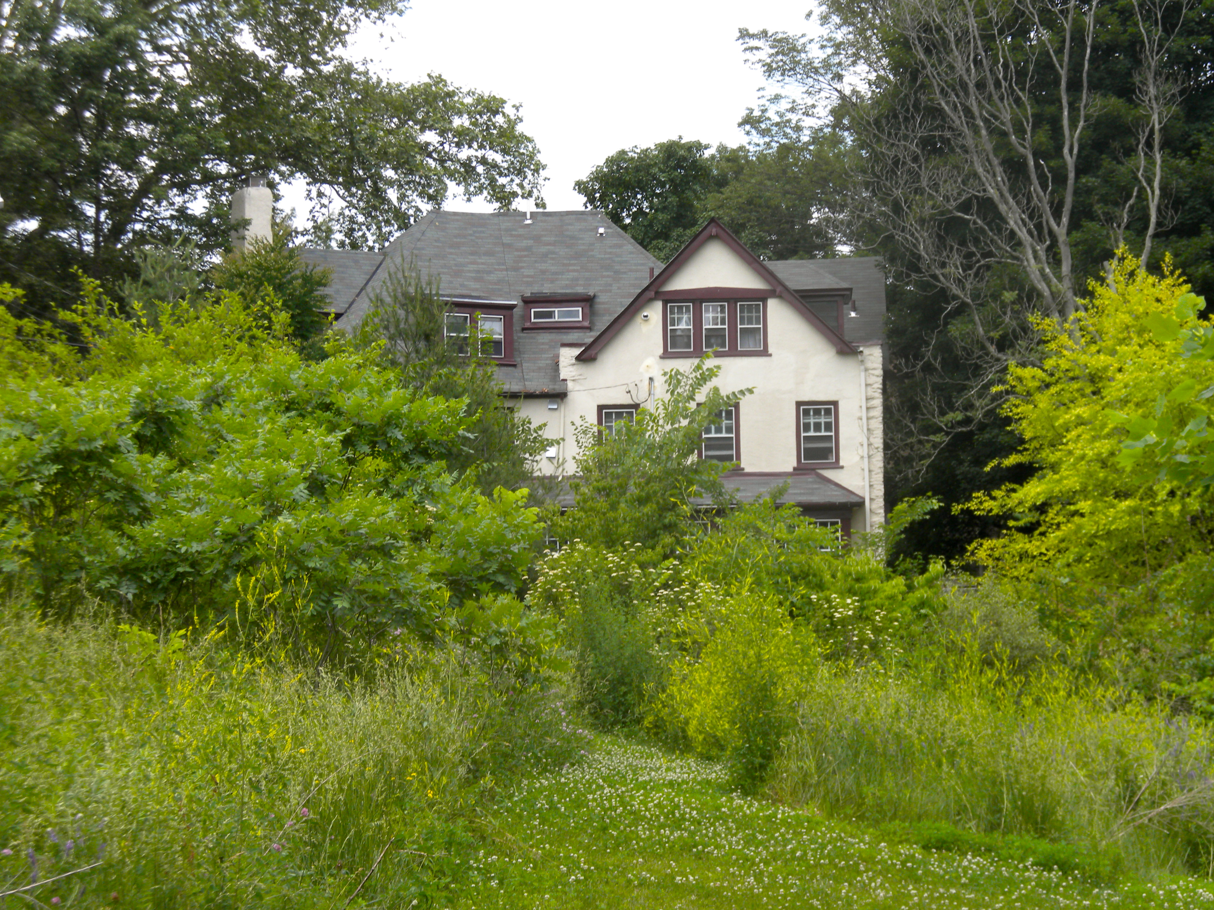 Lot at 401 W. Johnson Street near Lincoln Dr. and Cliveden Street. This shows the location of the Mayfair House on the NRHP since April 7, 1982, which has now been torn down (according to one reference anyway). 401 West Johnson Street in Germantown neighborhood of Northwest Philadelphia. The lot is in the foreground, in the background is the back of Connie Mack's house (believe it or not) on Cliveden Street